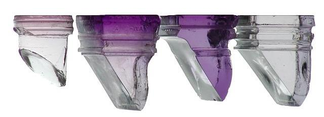 Image of four single-pendant vault lights, showing solarization gradient (more purple on the top where the sun hits them, less purple further down as the UV exposure diminishes).